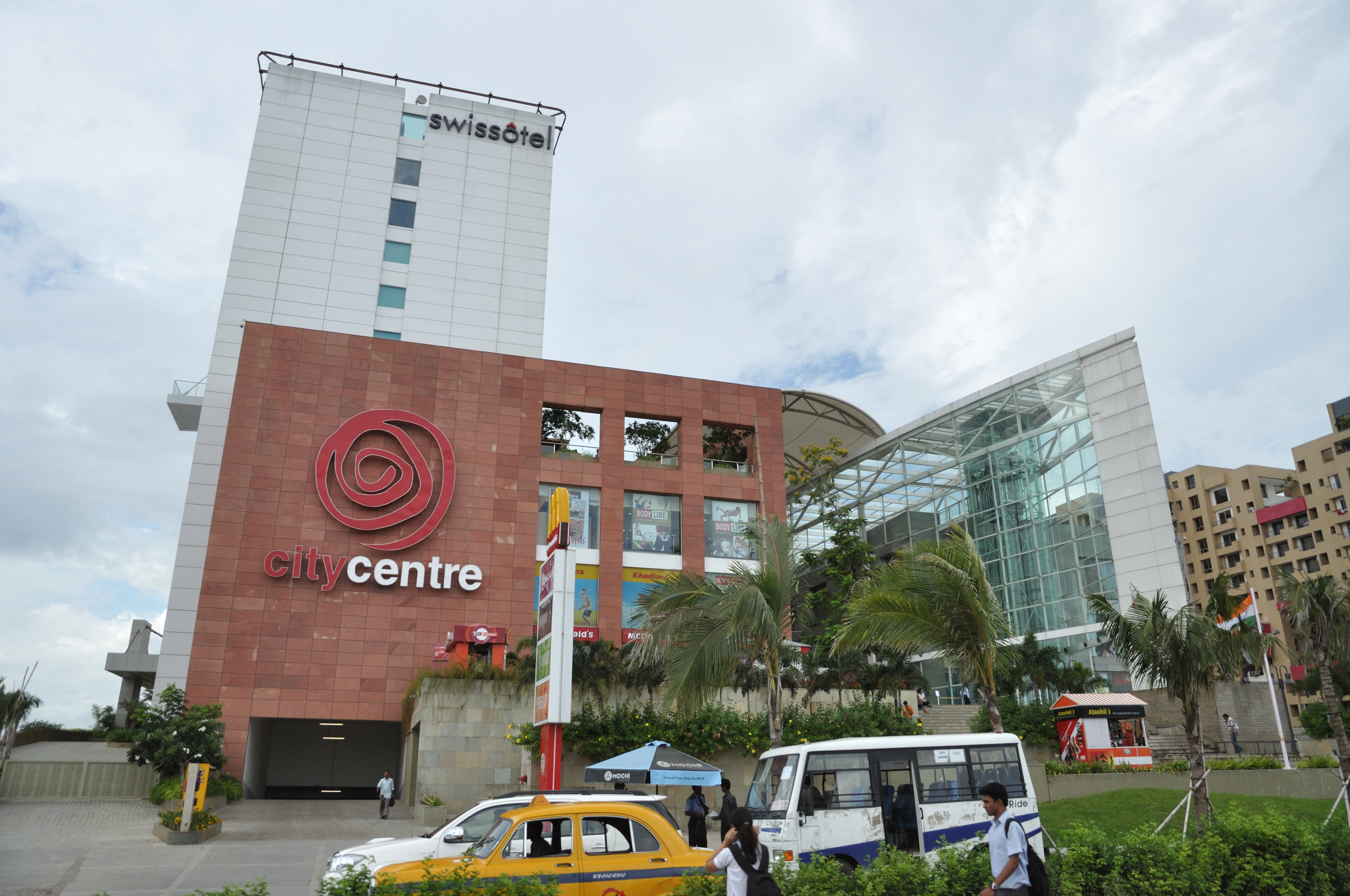 This photograph was taken in Kolkata.